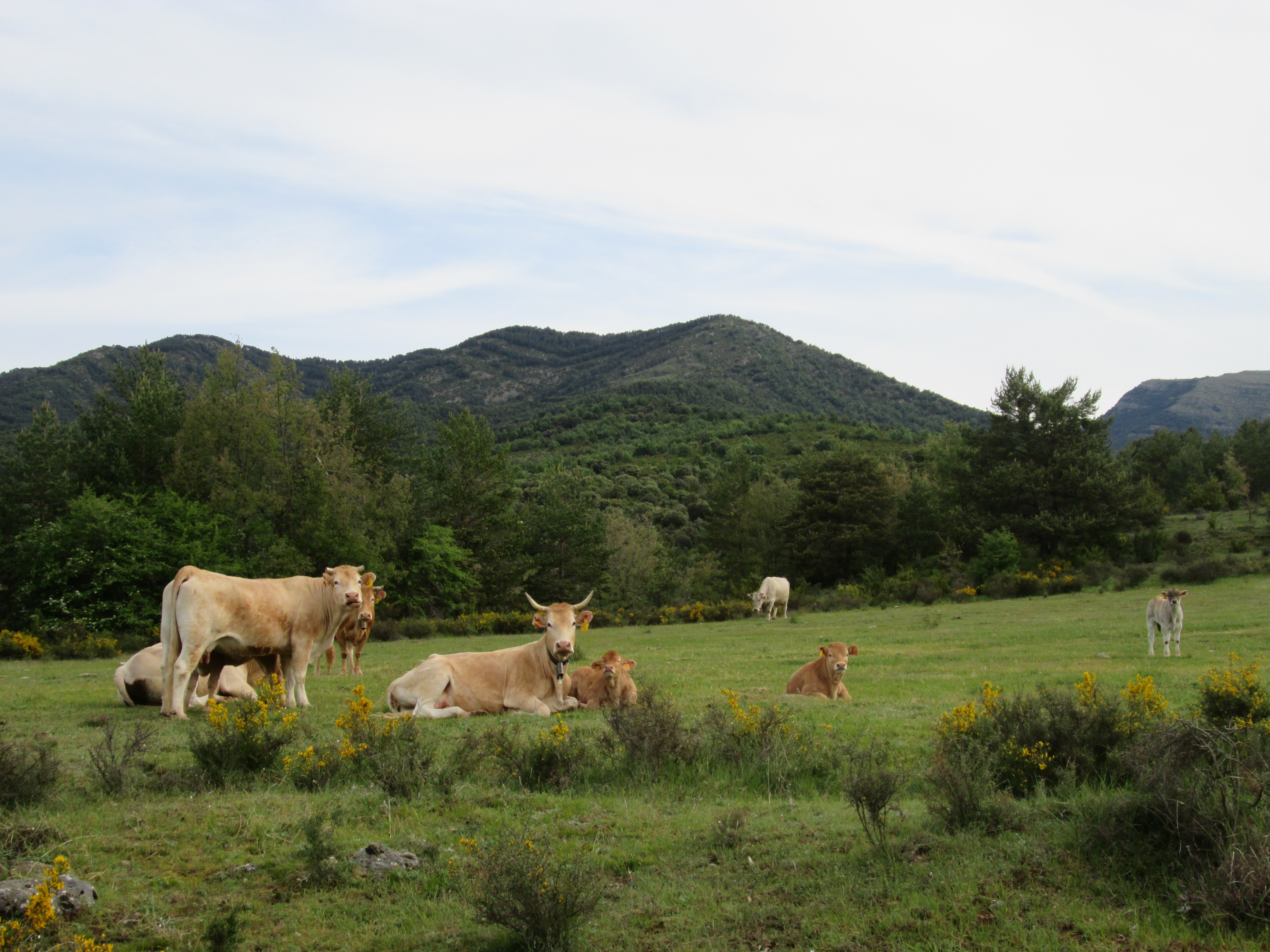 Grazing cows near the village of Gillué, municipality of Sabiñanigo, Aragon (2014-05).